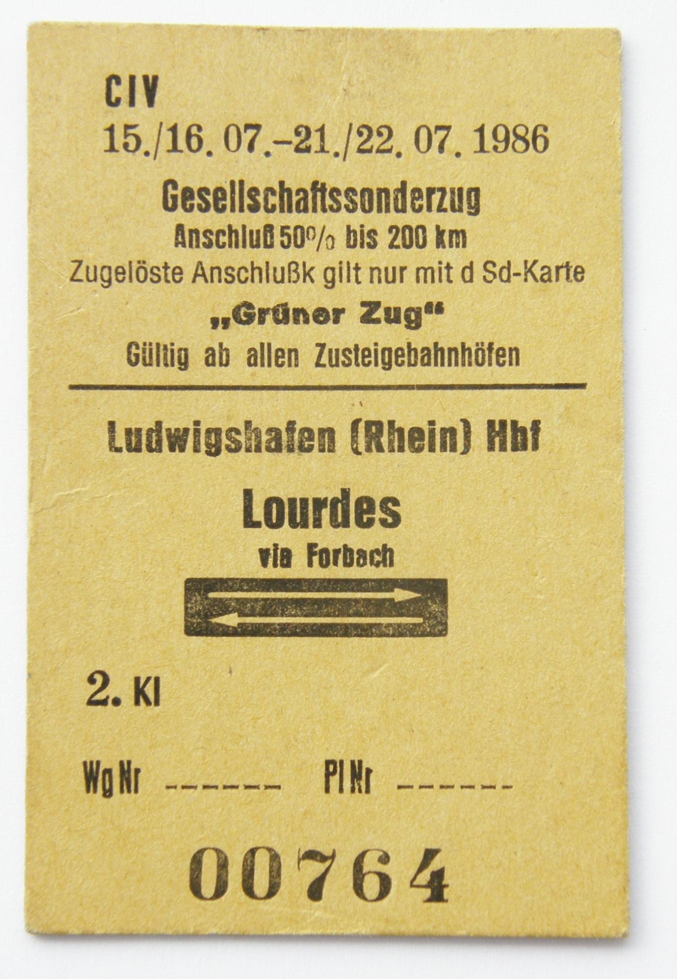 Rail tickets of the Deutsche Bahn to Lourdes 1986